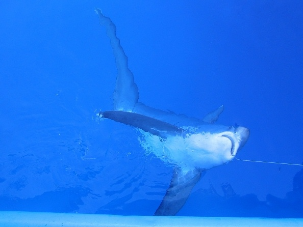 Common thresher shark (Alopias vulpinus) hooked on a longline.